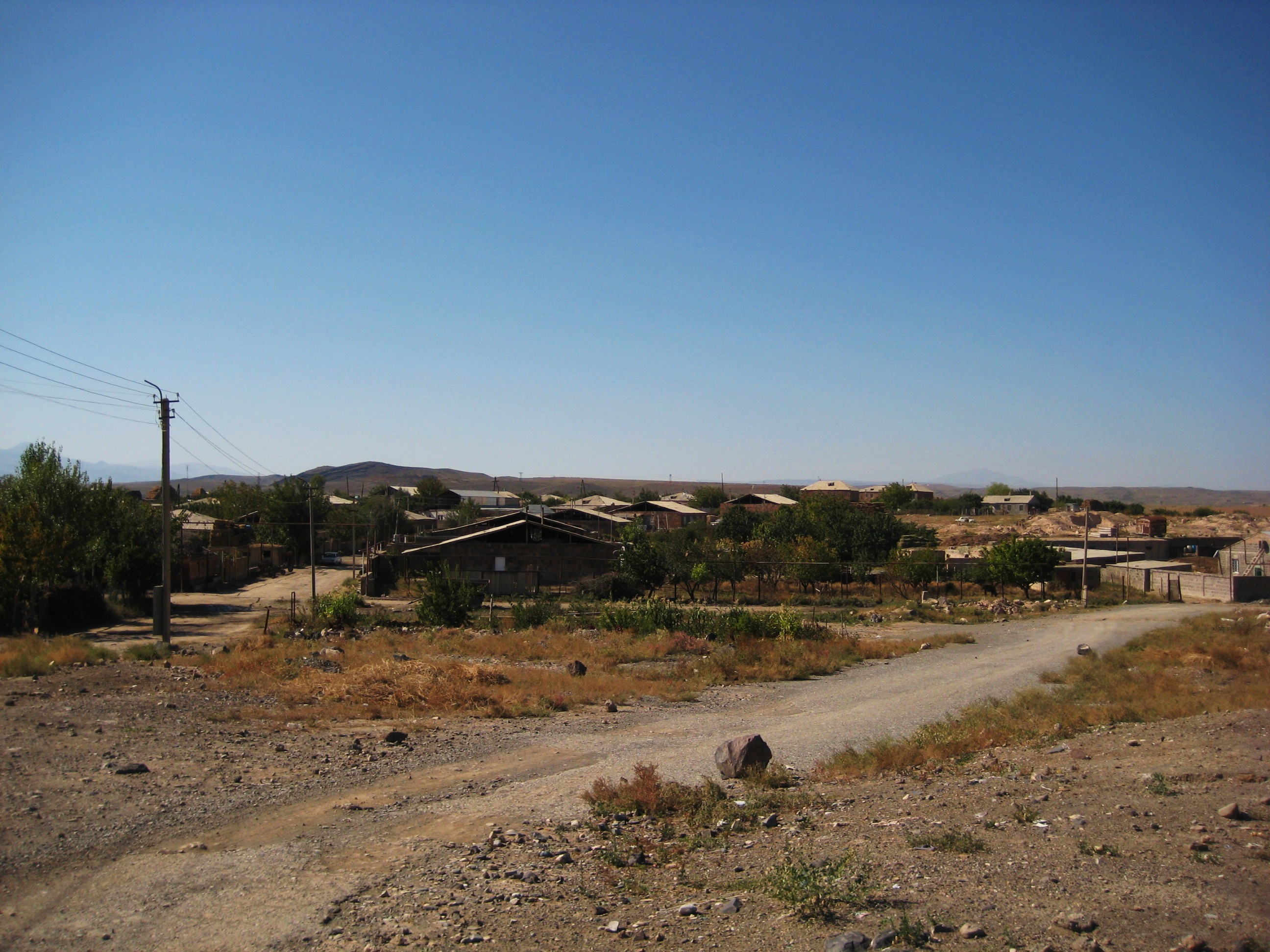 Vanand